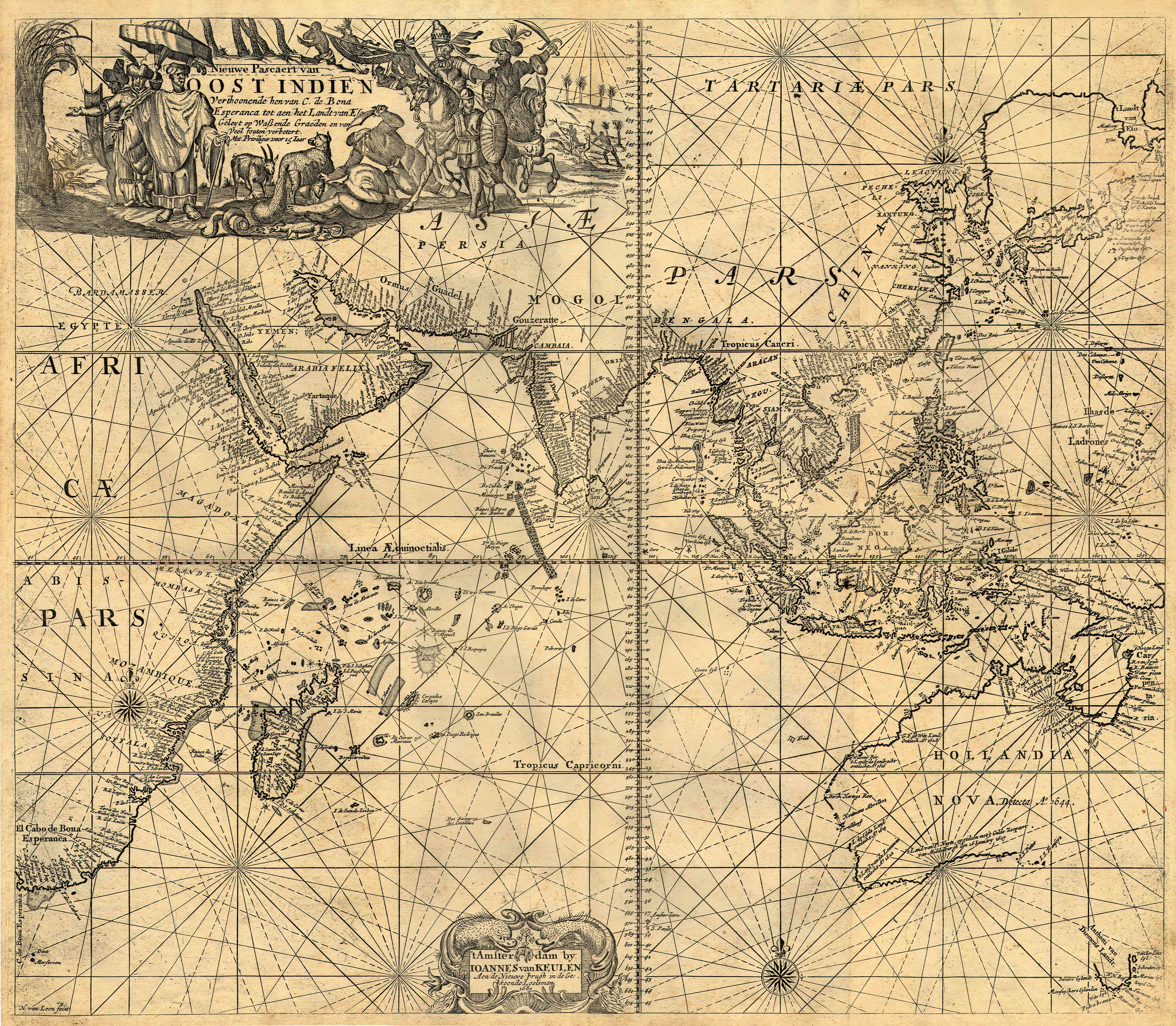 Antique map of Far East, Australia by van Keulen Edit: Spots removed